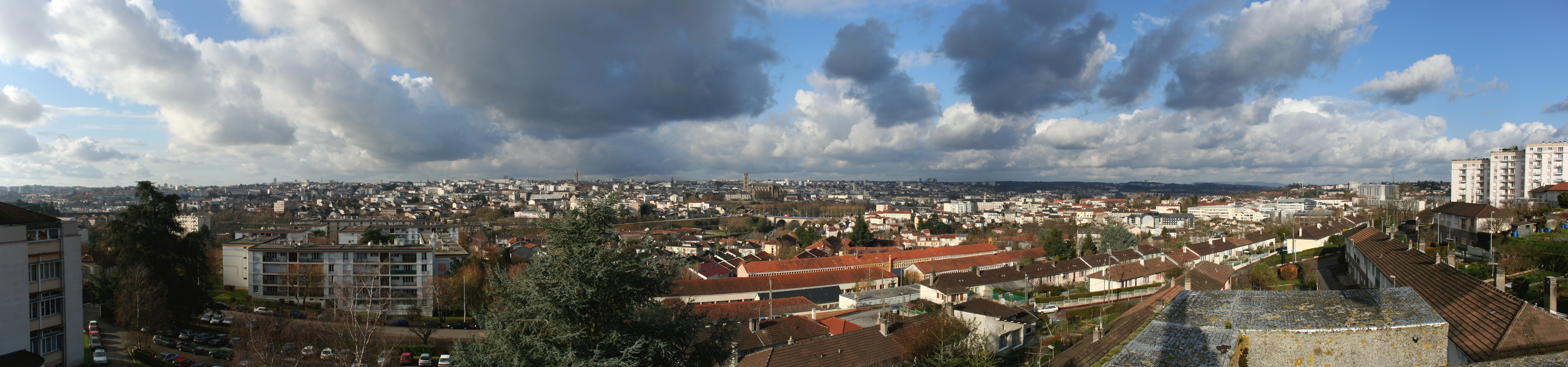 City of Limoges, France